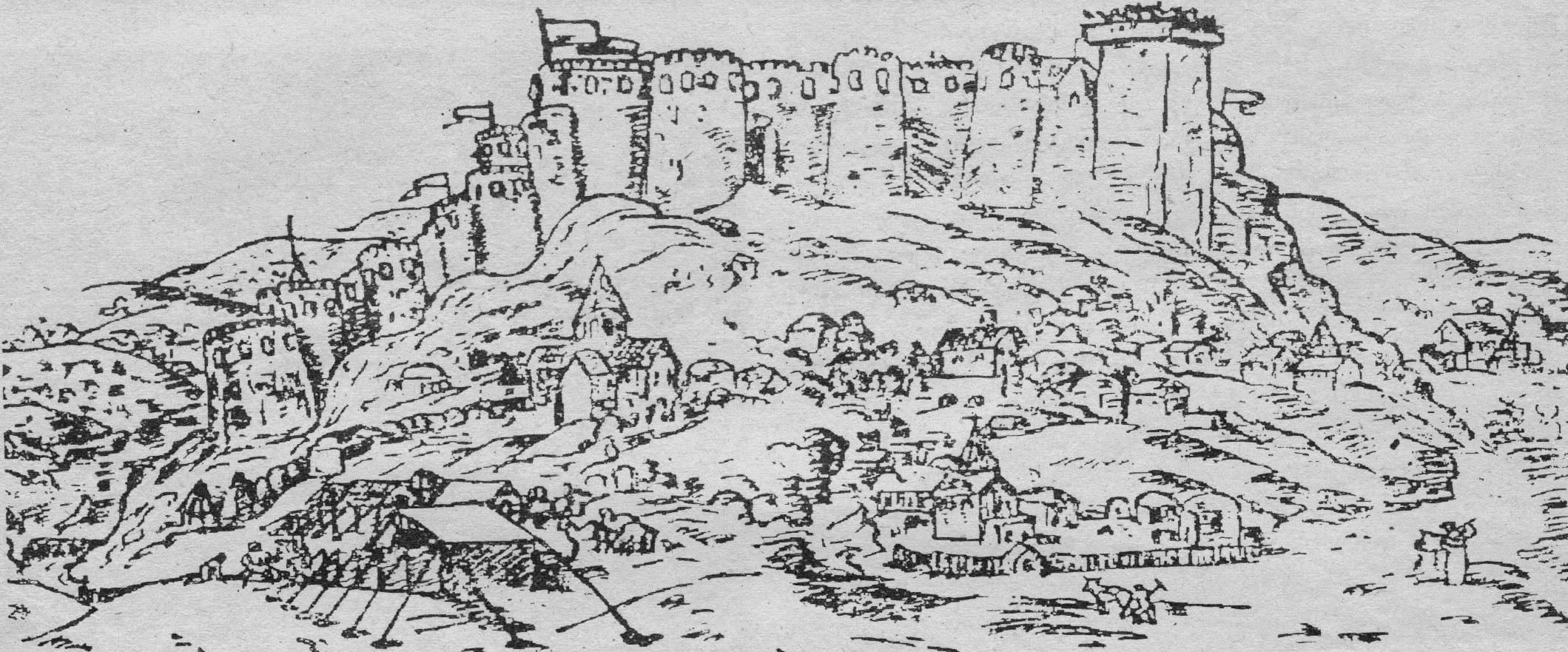 Gori fortress in Georgia. Cristoforo di Castelli, c. 1640s